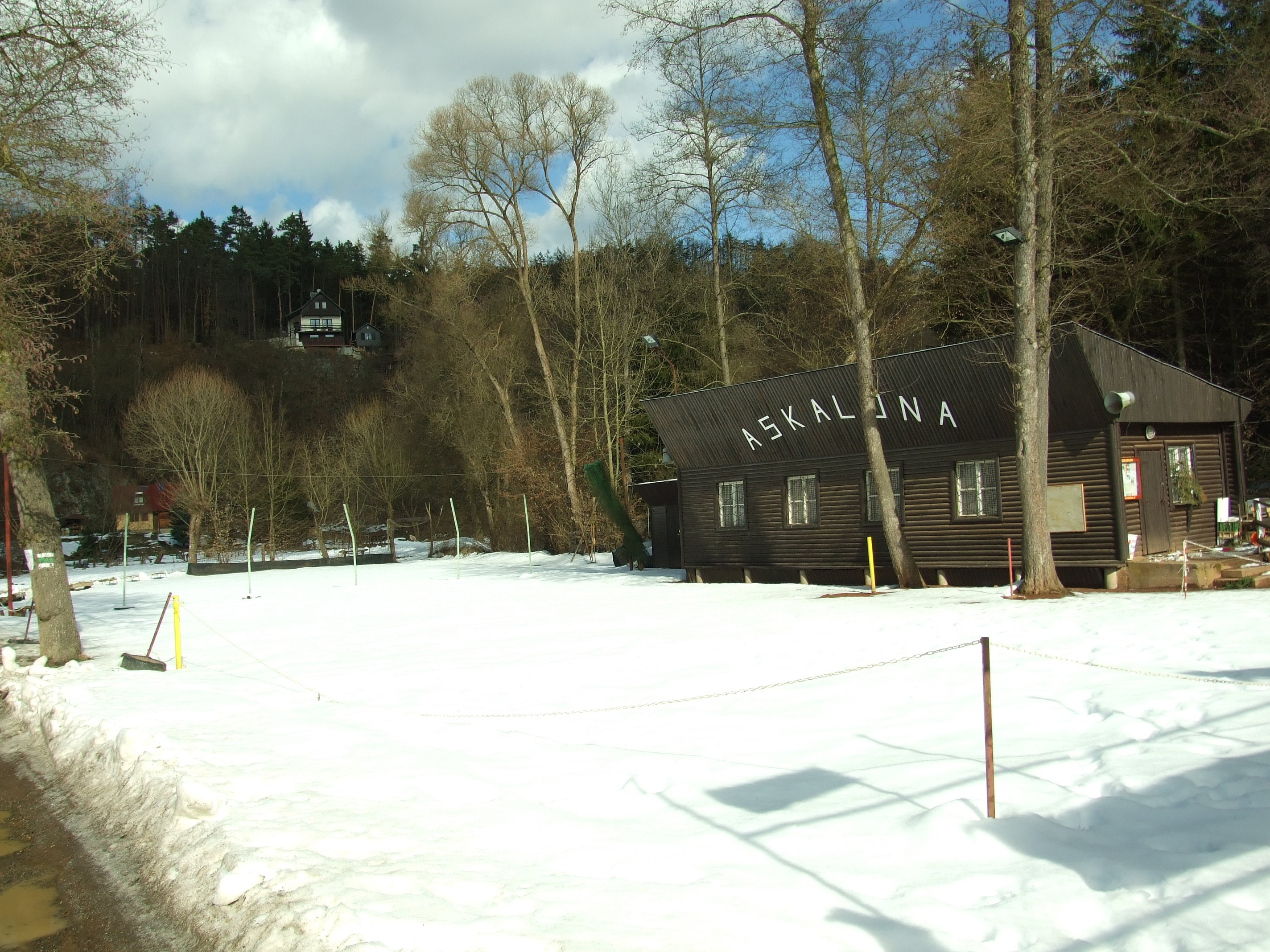 Askalona settlement near Bratřínov village, Central Bohemian Region, CZ